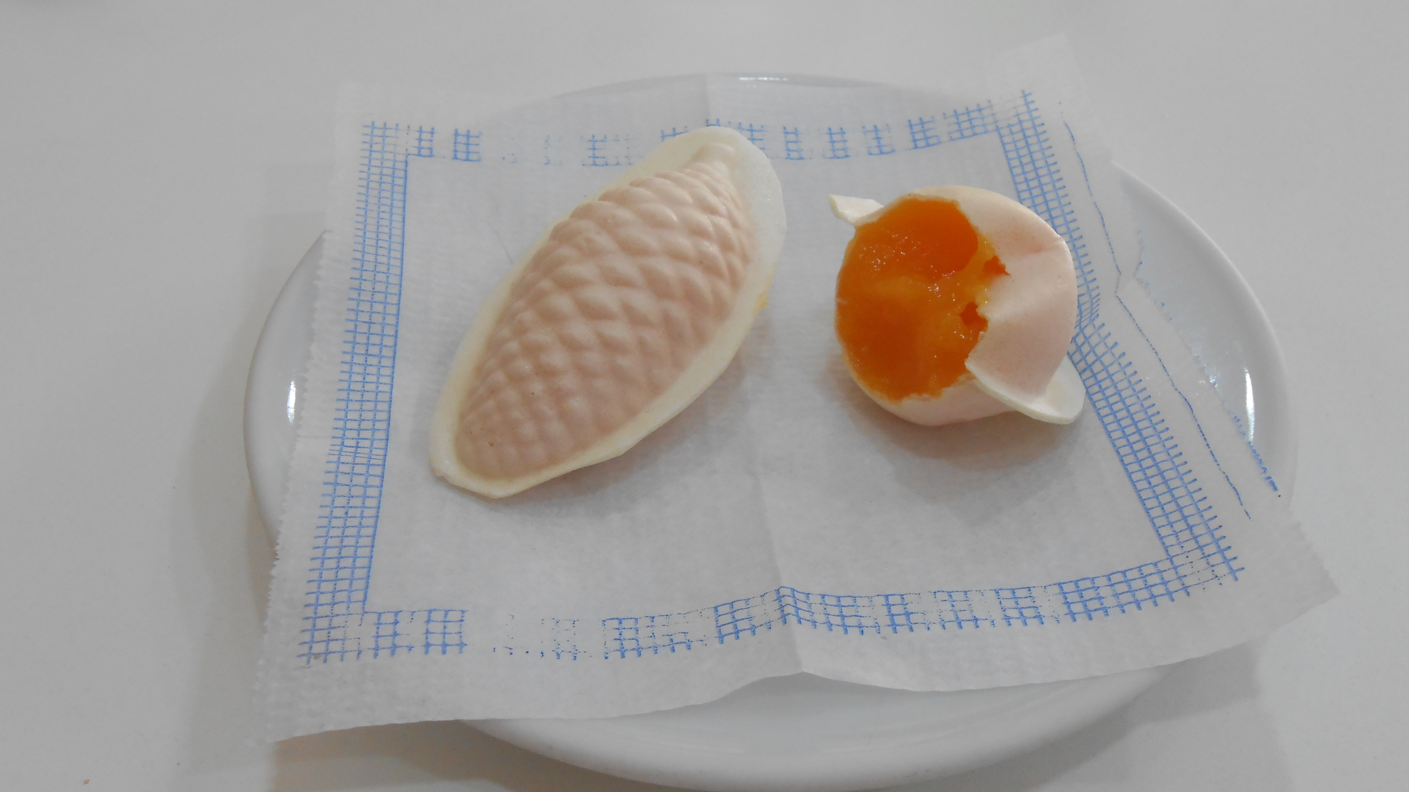 Ovos Moles (engl.: soft eggs), a traditional sweet (Protected Geographical Indication) from Aveiro, Portugal